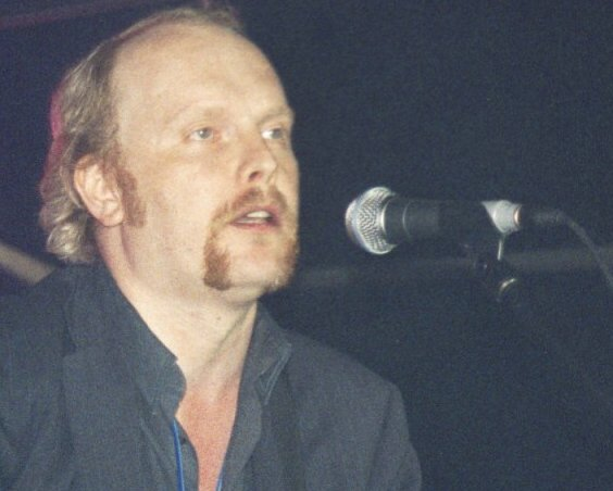 Luke Haines, Summer Sundae, 2005. Singing a song about unpopular 1970s paedophile, Jonathan King. He's a cheery chappy, is Luke. I made this. GWO